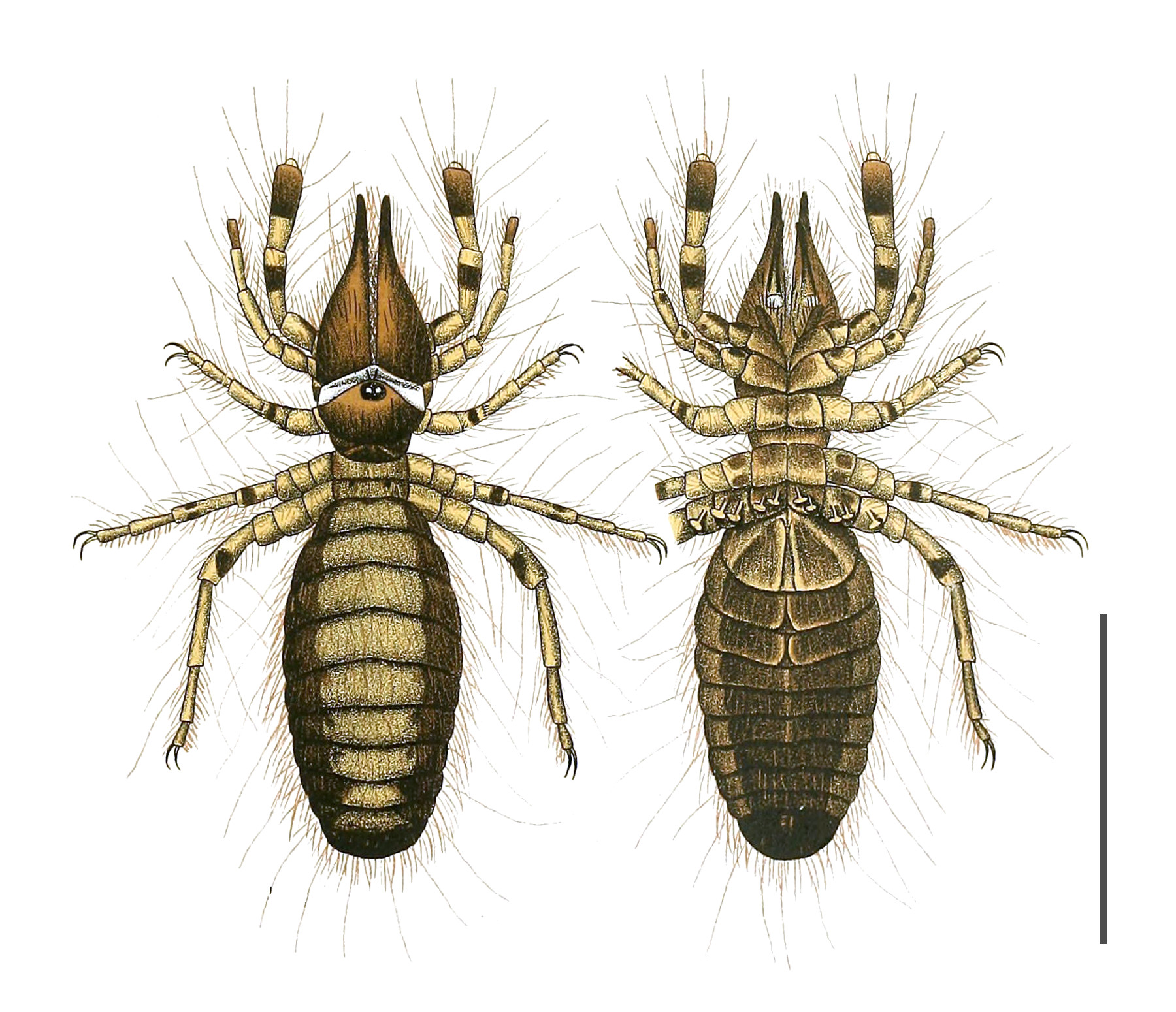 Rhagodima nigrocincta (=Rhax nigrocincta, Arachnida: Solifugae). Dorsal and ventral aspect.